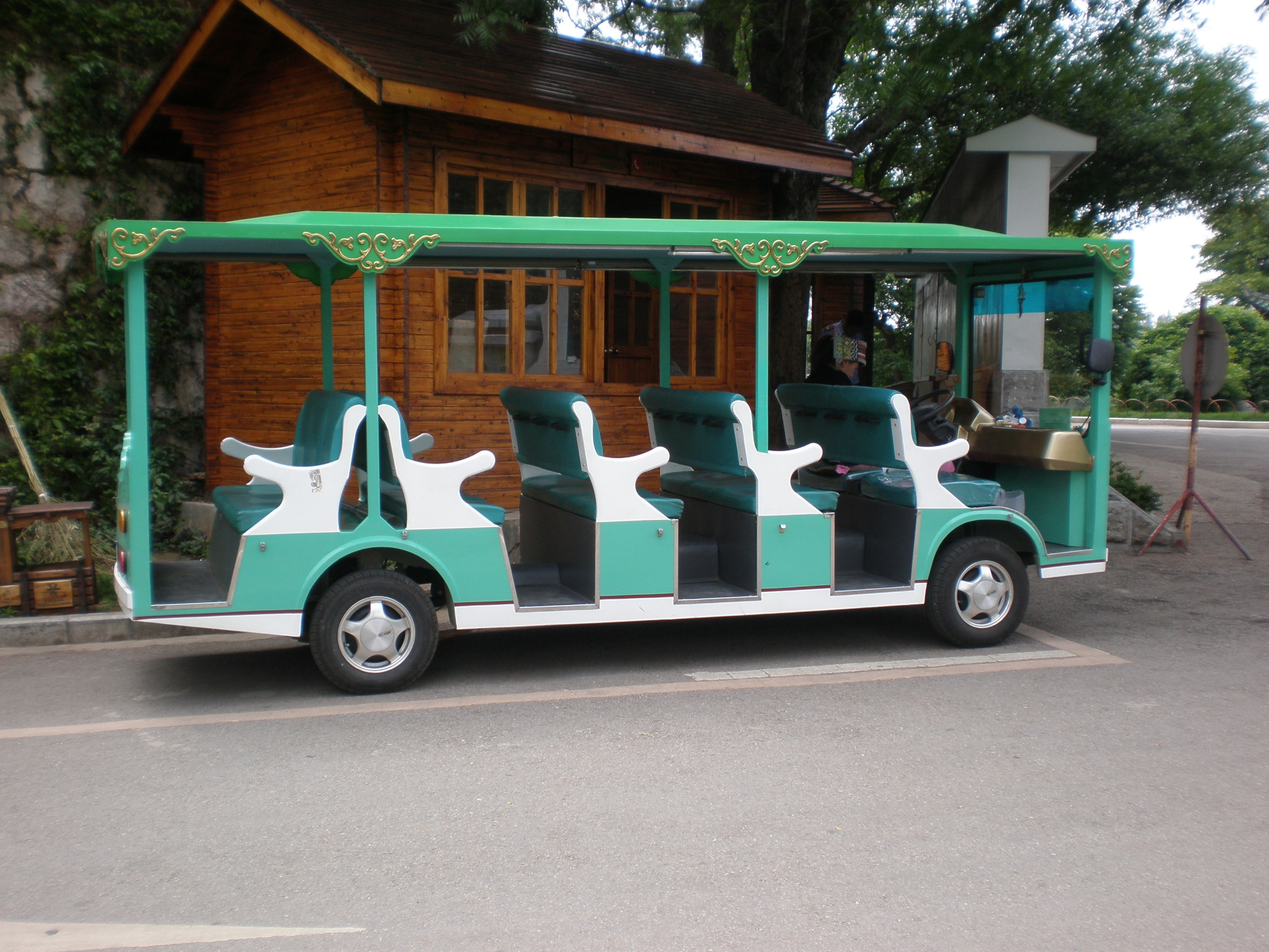 An electric bus used to ferry visitors around the Stone Forest in Yunnan.